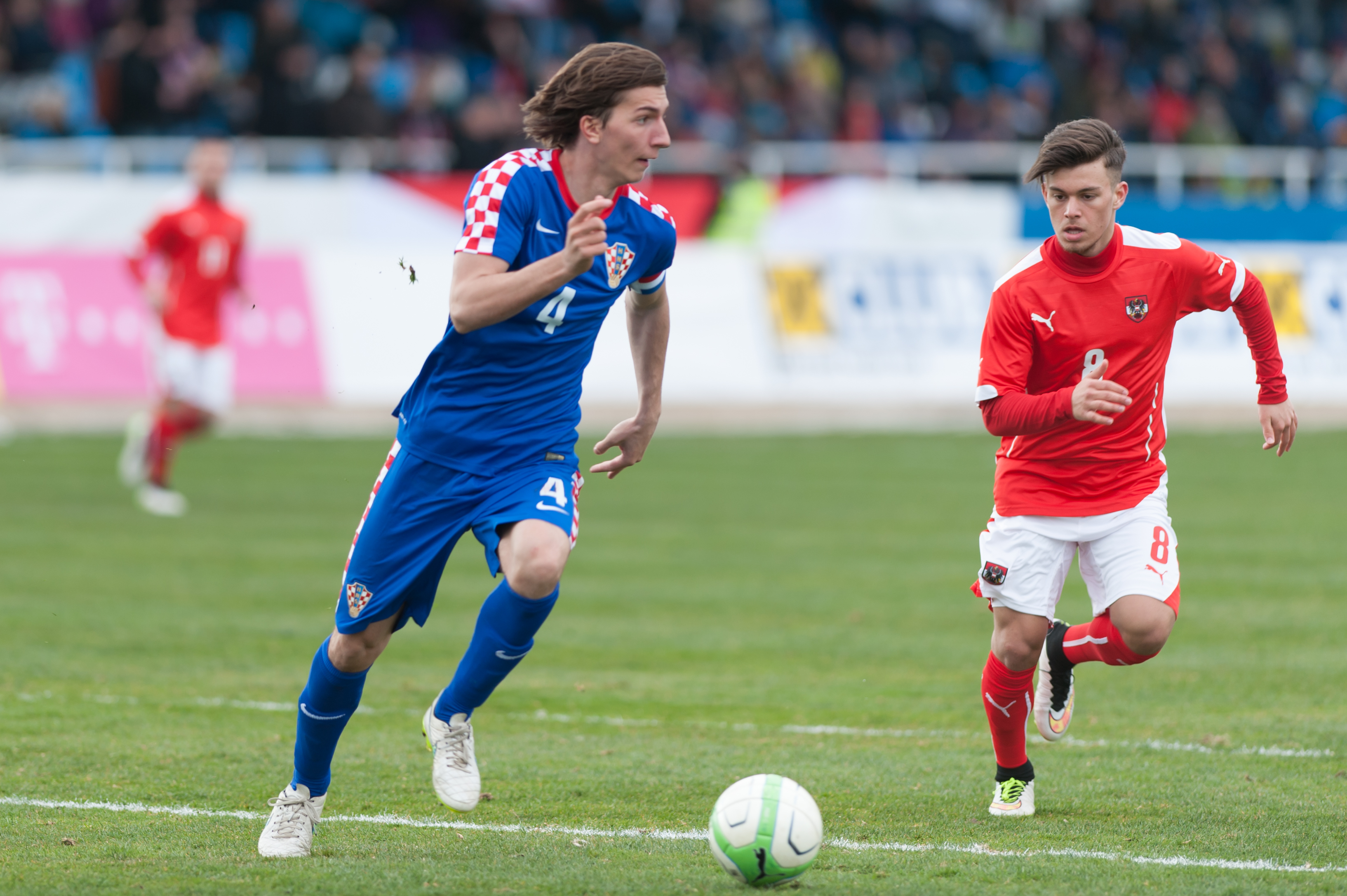 European Under-19 Championships 2015 Elite Round, Austria vs. Croatia, 28/03/2015 Wiener Neustadt, Lower Austria